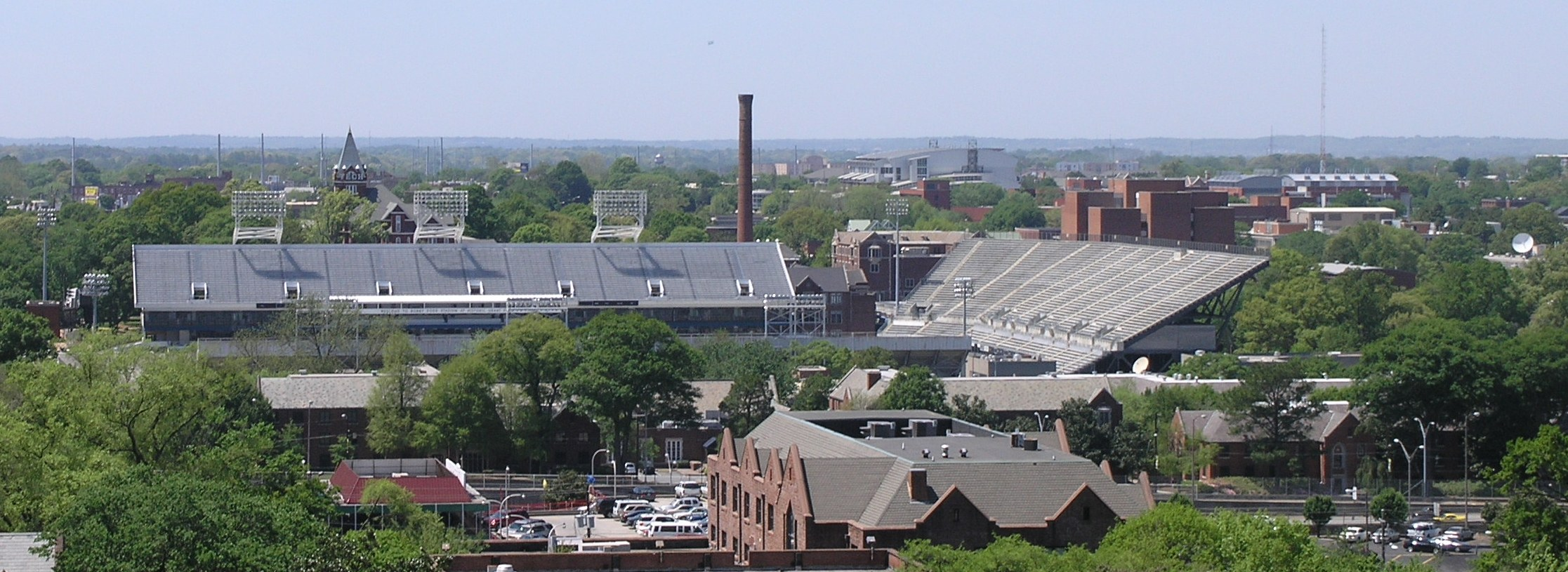 Photo taken in Atlanta area